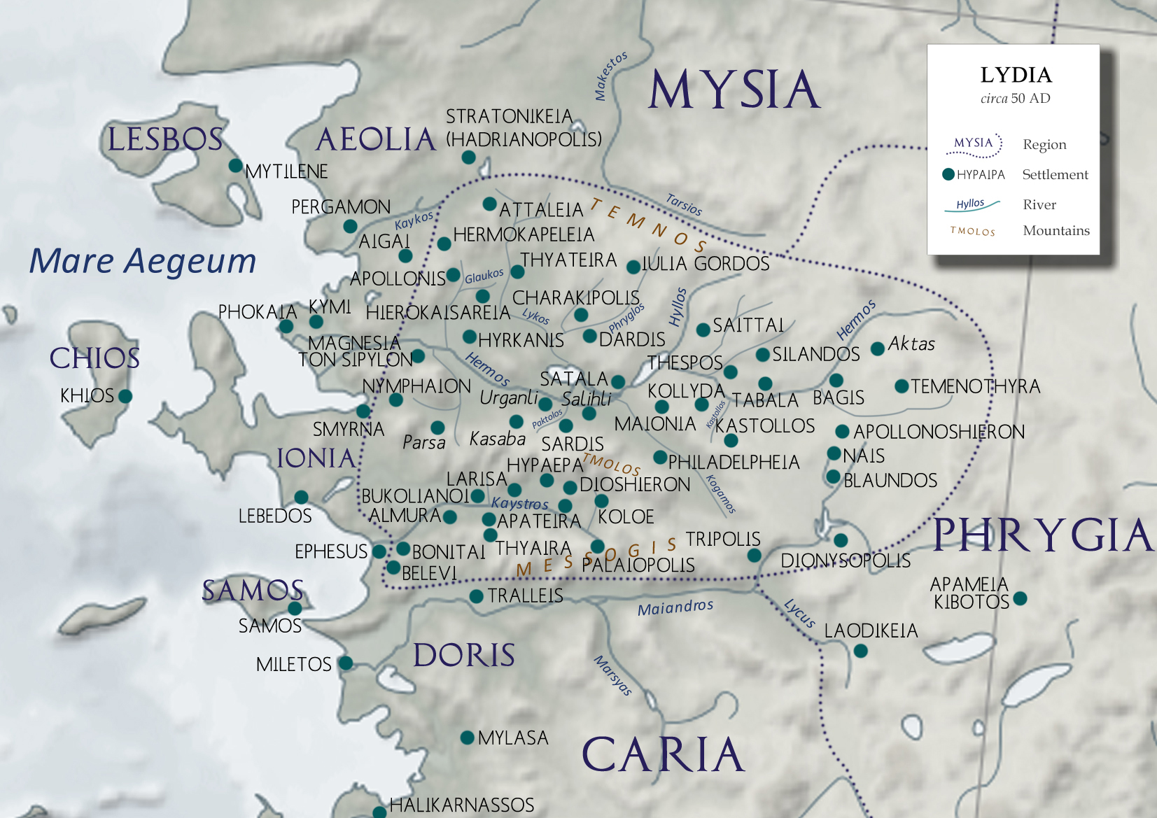 Lydia circa 50 AD - English legend